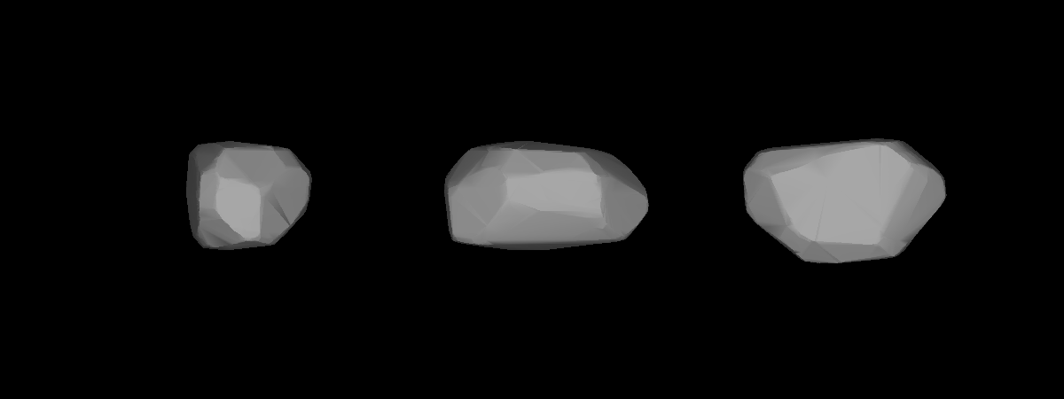 A three-dimensional model of 695 Bella that was computed using light curve inversion techniques.